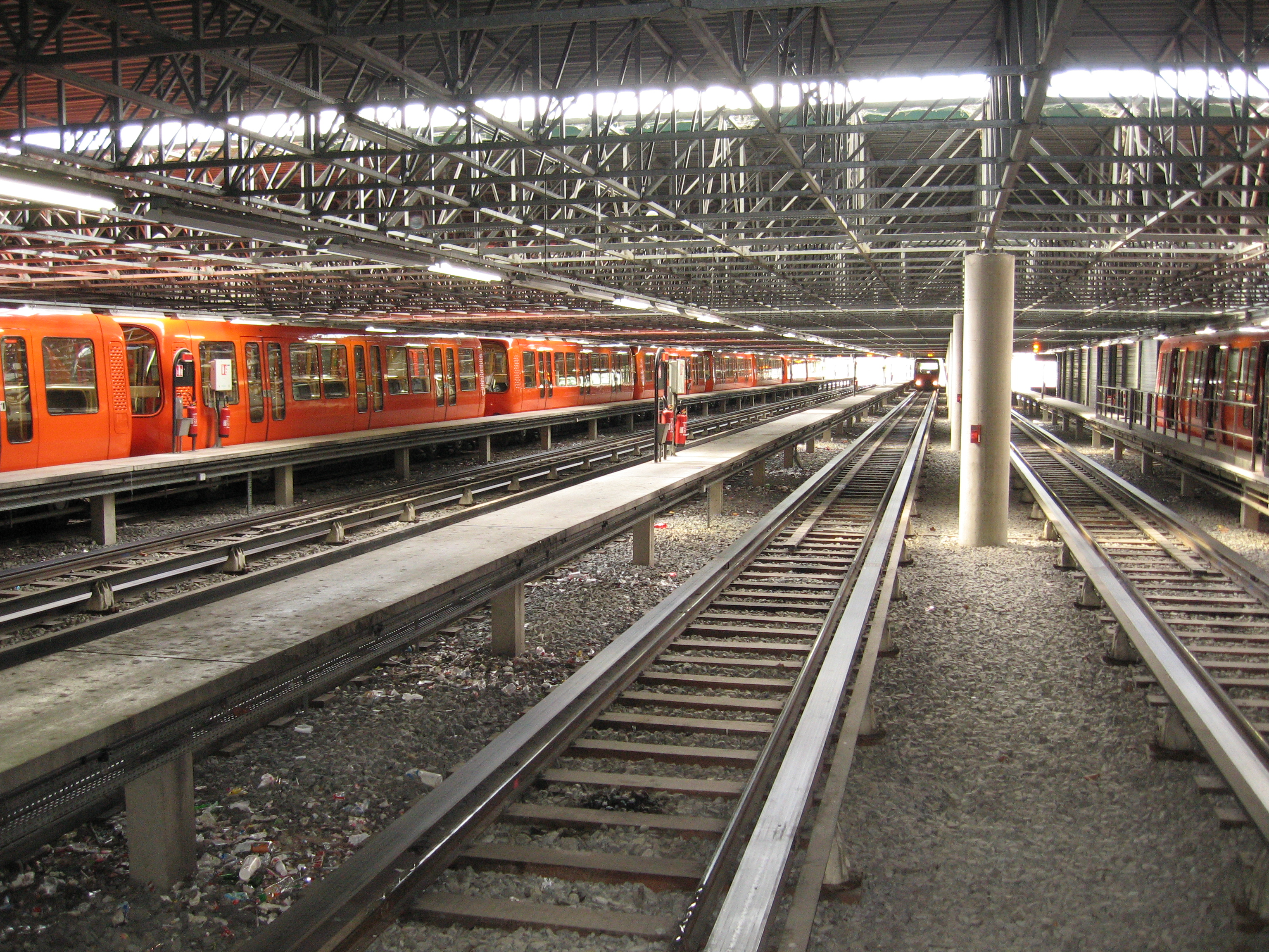 Rubber-tired metro in Lyon, France: garage